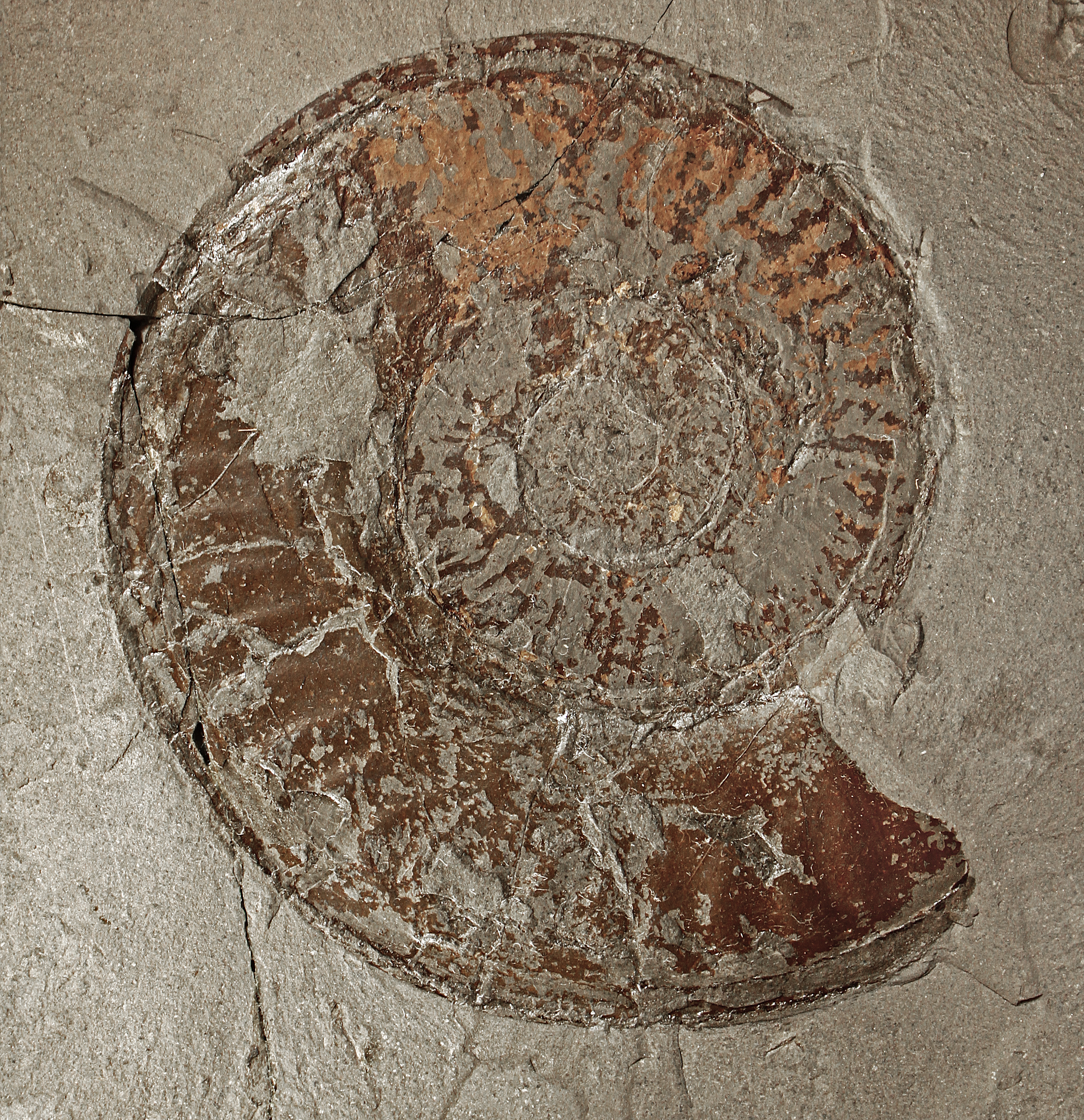 Hildoceras sublevisoni, Hildoceratidae; Diameter 11 cm; Lower Toarcian, Lower Jurassic; Aselfingen, Germany; own collection, therefore not geocoded.